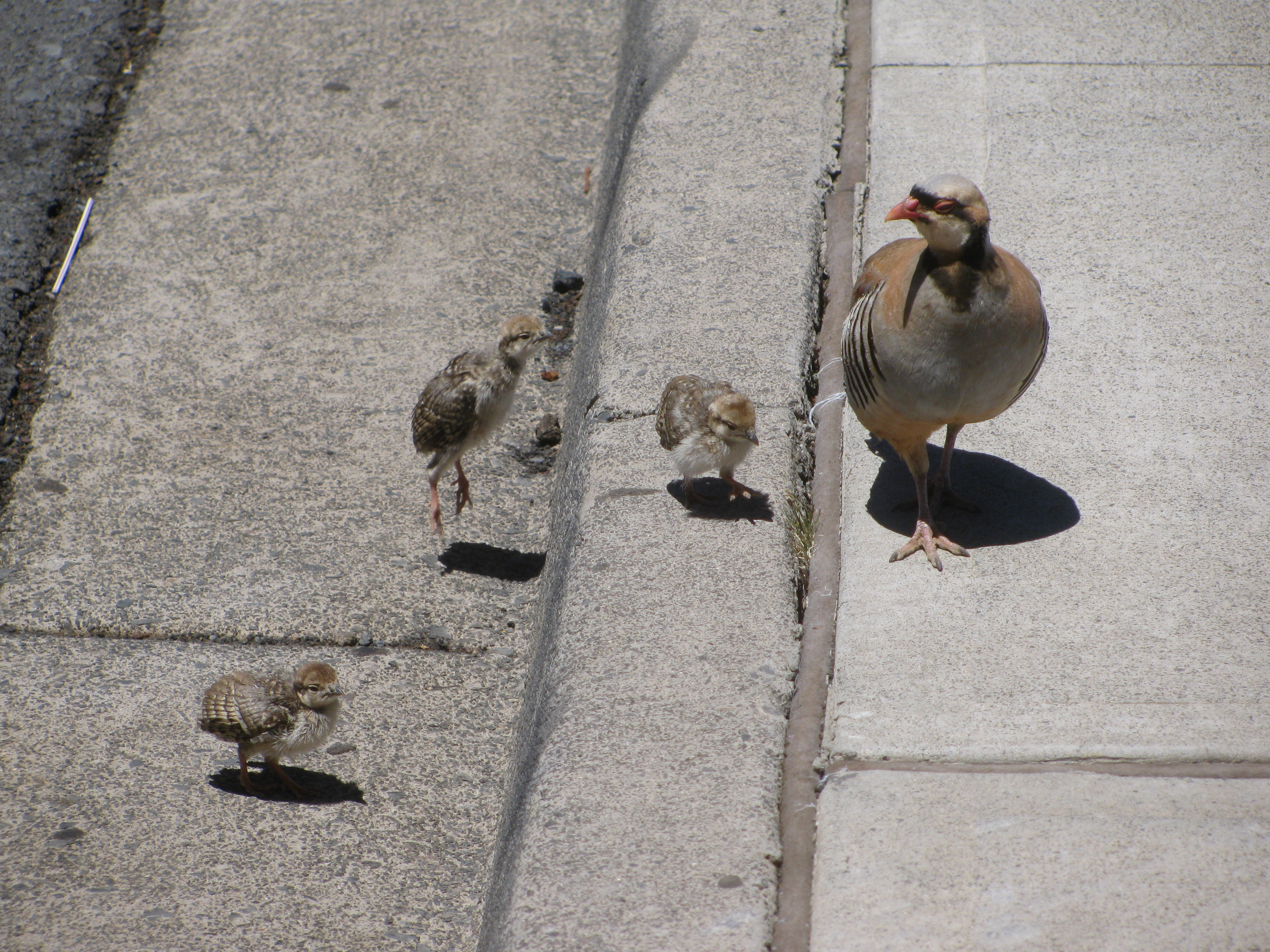 Image Use Policy